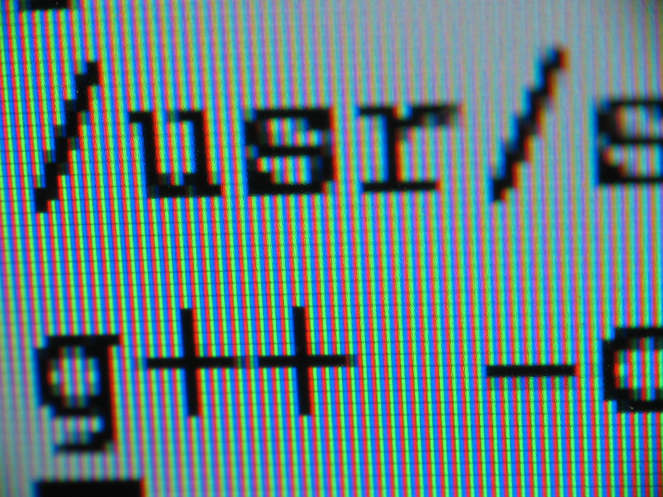 Macro shot of an LCD monitor. The red, green and blue pixel components of are visible.